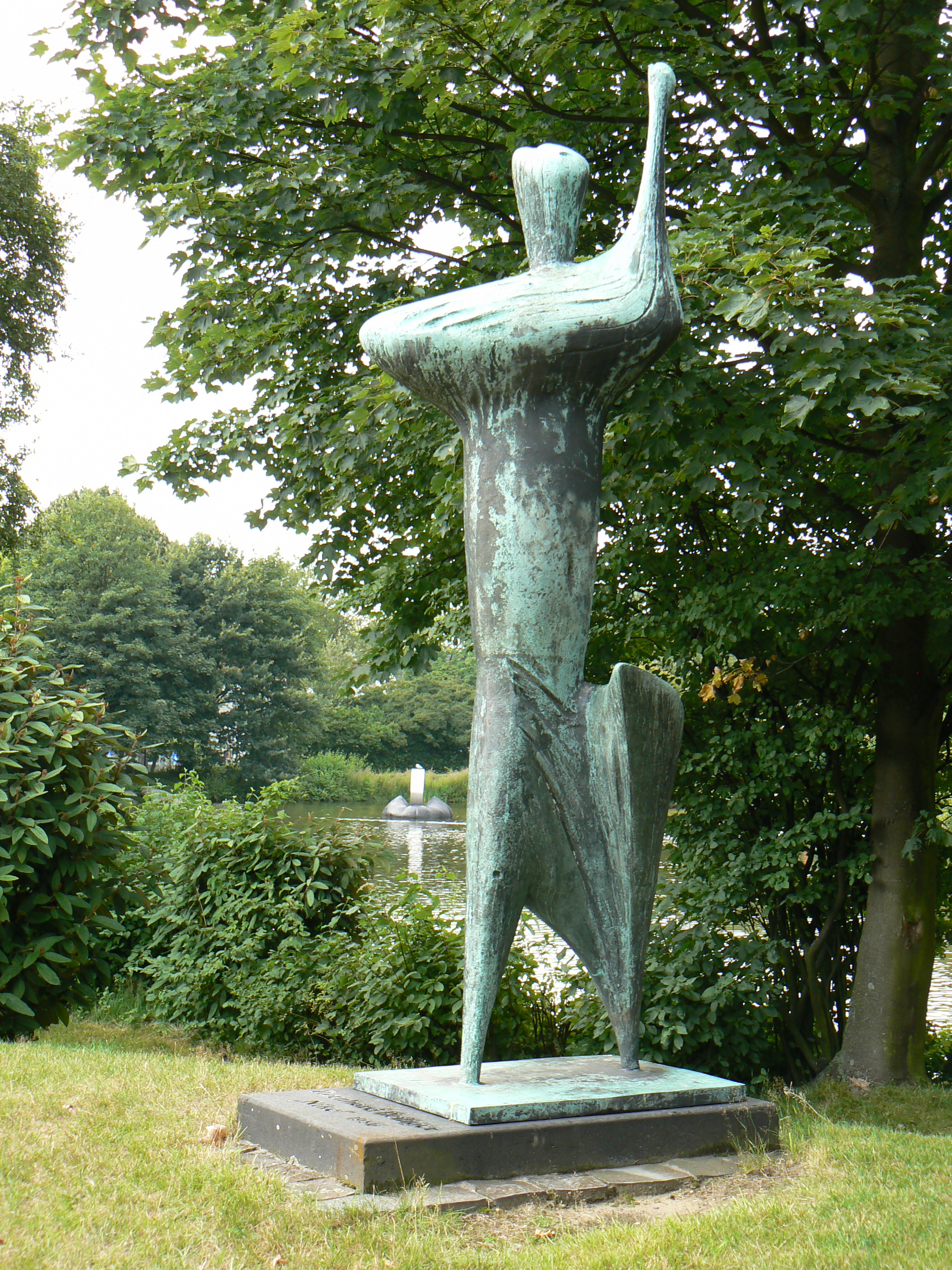 Collection: Skulpturenmuseum Glaskasten Location: City Center Marl/Germany Sculpture: Nike (1956) Sculptor: Bernhard Heiliger